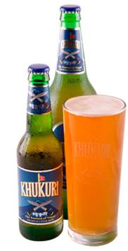 Khukuri beer 660 ml and 330 ml